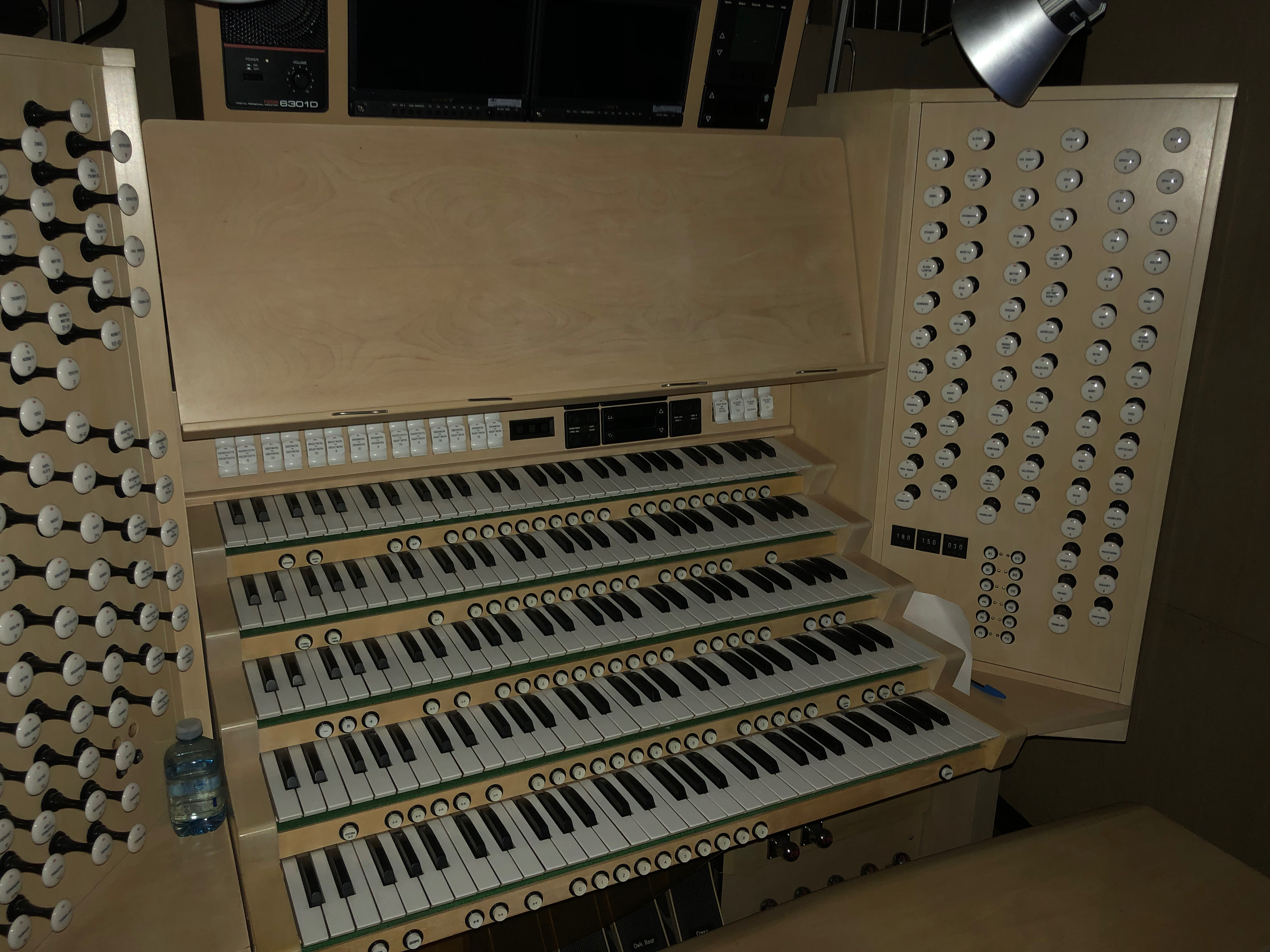 The 5 manuals and 2 drawstop boards of the console of the Sydney Opera House Concert Hall Grand Organ.